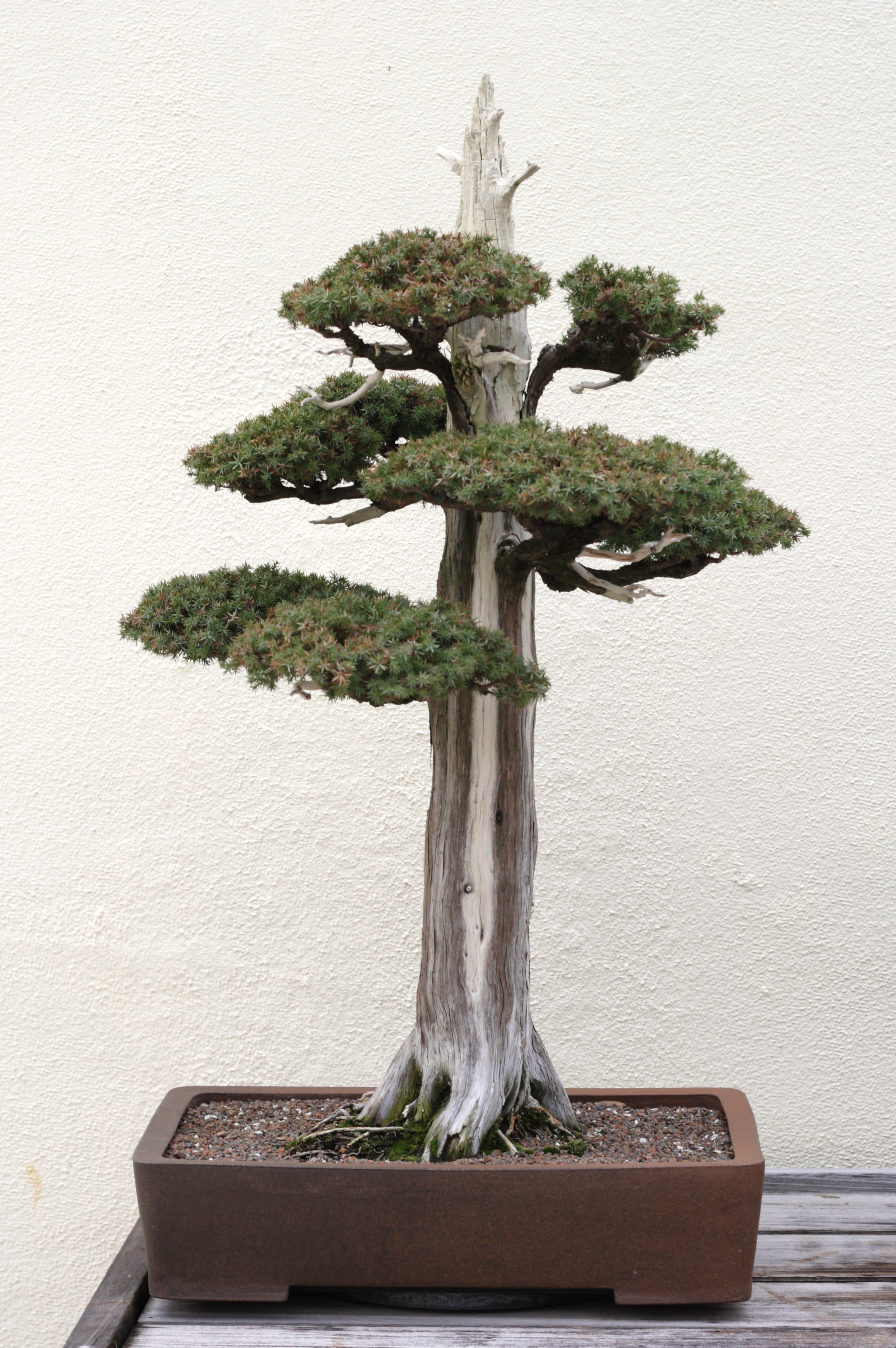 A Foemina Juniper (Juniperus chinensis 'Foemina') bonsai, North American Collection 224, on display at the National Bonsai & Penjing Museum at the United States National Arboretum. According to the tree's display placard, it has been in training since 1975. It was donated by James R. and Helen Barrett. This is the "back" of the tree.